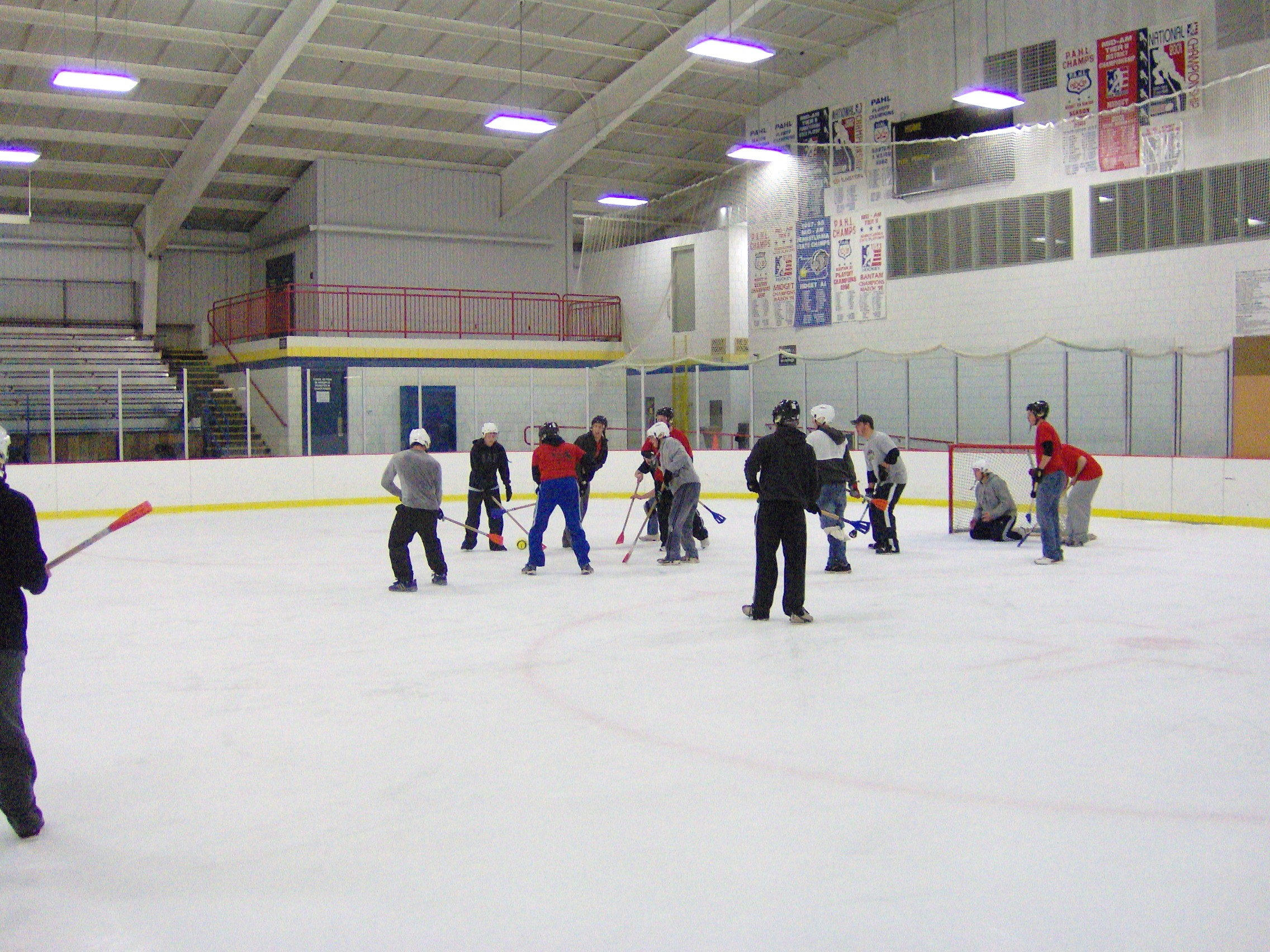 In-game picture of an informal game of broomball between college students. Unlike in more formal competitions, this game was played wholly in street clothes, with the only equipment being helmets, standard brooms, and a standard ball. Game was played between Geneva College students at the Beaver County Recreational Center, west of Beaver Falls, Pennsylvania, United States.